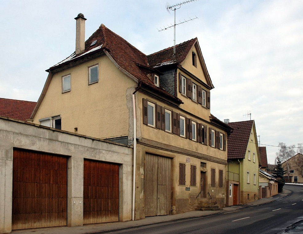 house of Hölderlin's parents in Lauffen am Neckar.